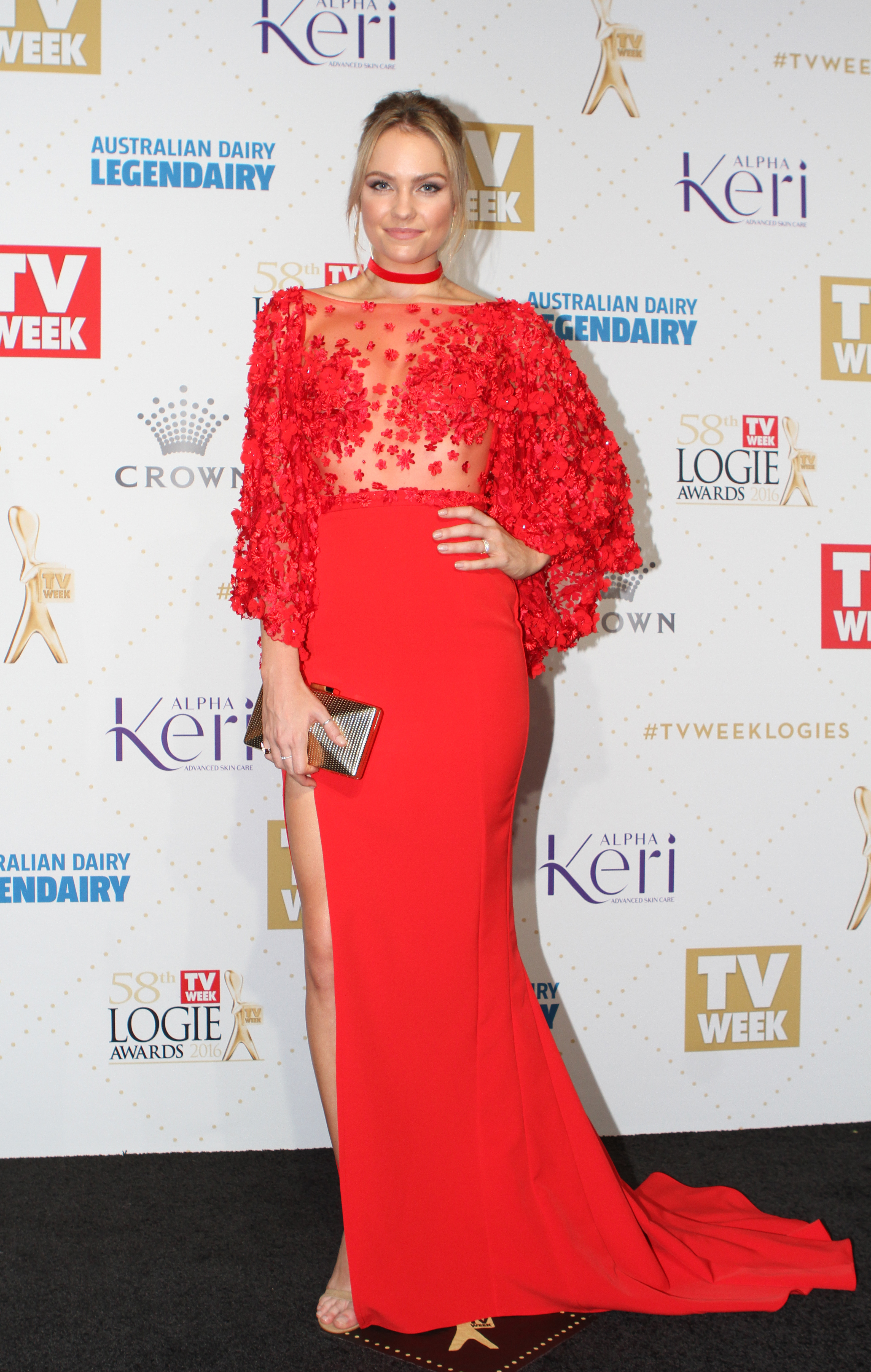 Melina Vidler arrives at the 58th Annual Logie Awards at Crown Palladium